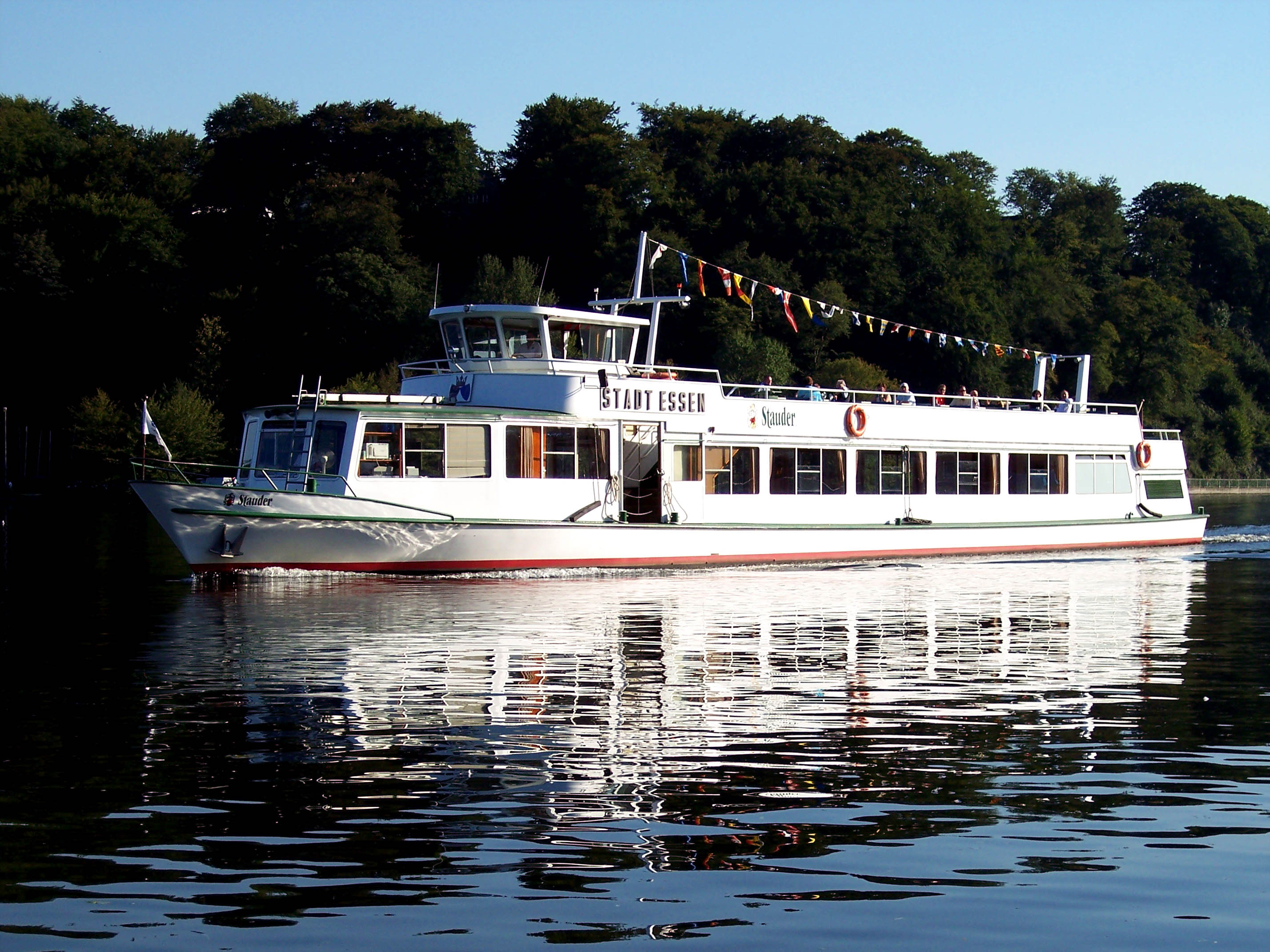 MS Stadt Essen of Weiße Flotte Baldeneysee arrives at Hügel on a scheduled trips along the Baldeneysee in the south of Essen, Germany.